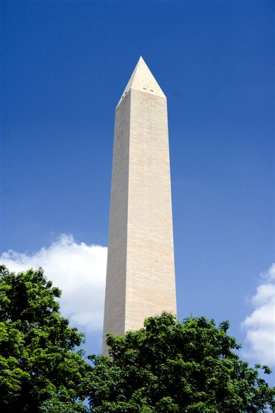 The Washington Monument